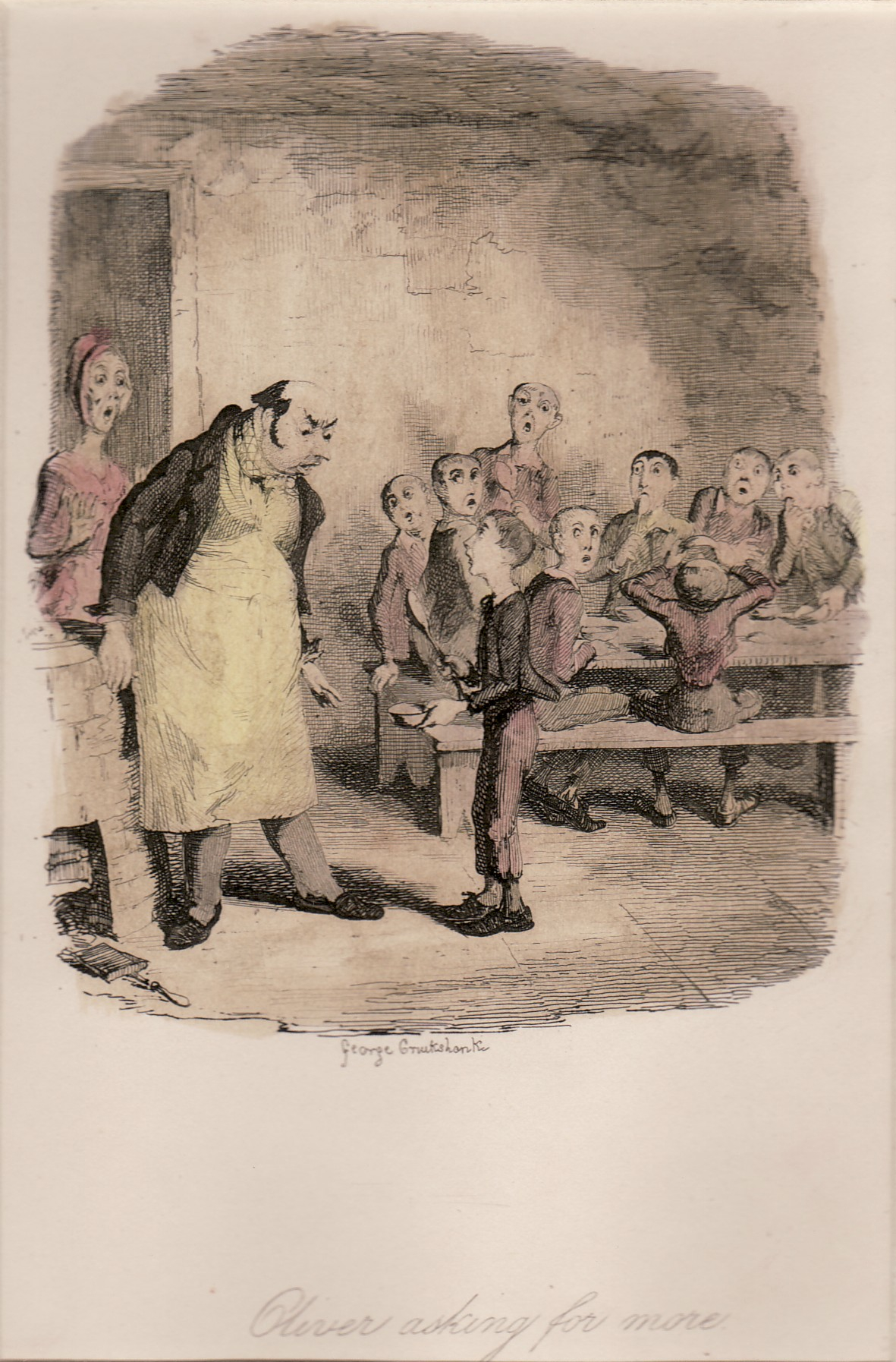 Color engraving of "Oliver Twist" by George Cruikshank